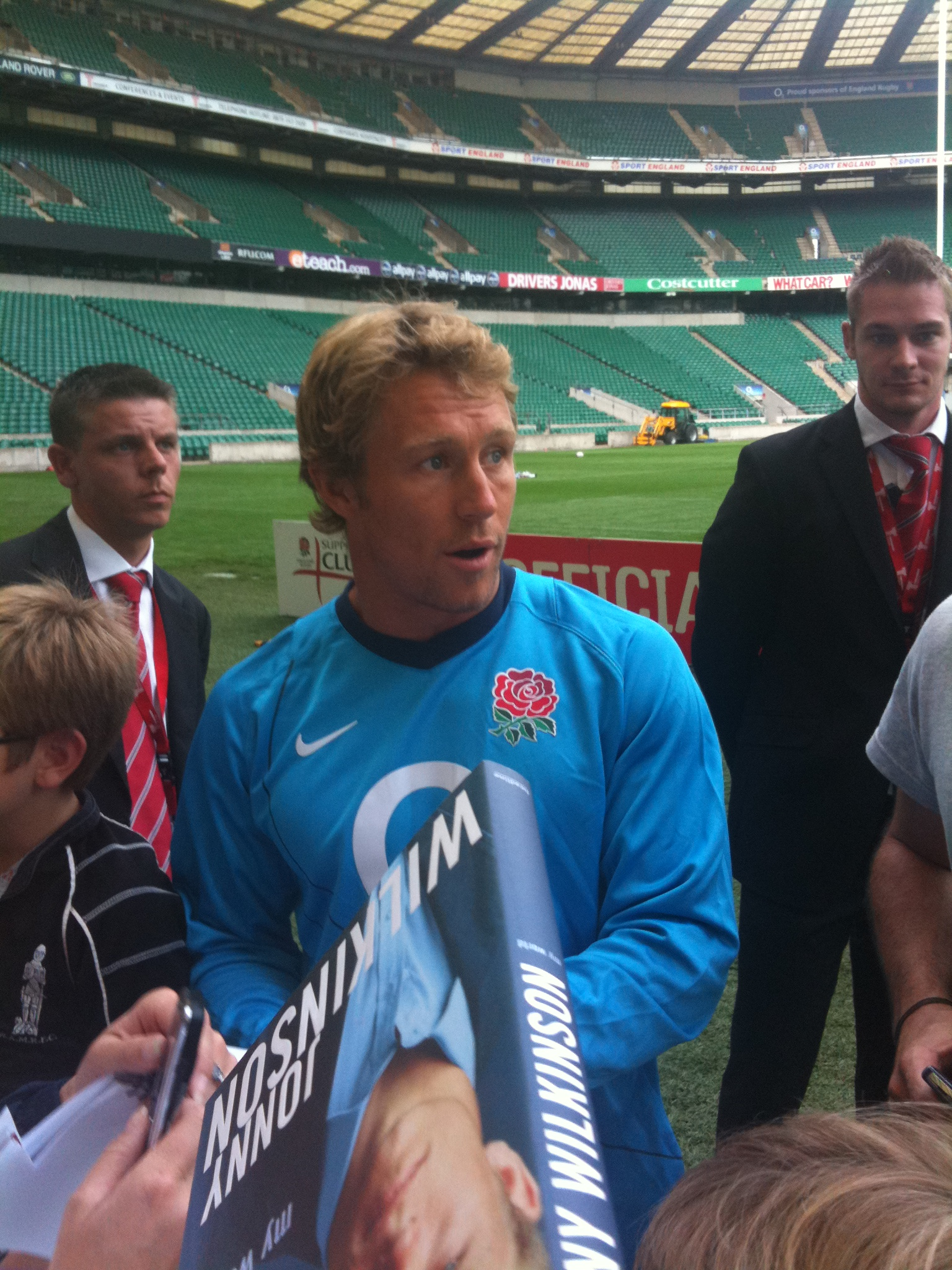 Jonny Wilkinson à l'entraînement avec le XV de la Rose. Prise le 12 août 2009. Jonny Wilkinson with English team training session in Twickenham stadium. 12 August 2009.